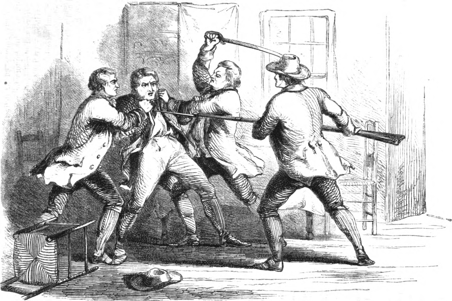 Illustration of the capture of British Loyalist spy Joseph Bettys in the Town of Ballston, New York, 1782